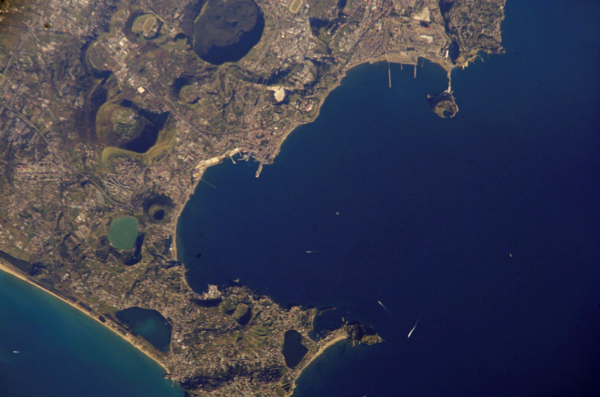 Astronaut Photography of Earth: Campi Flegrei and Pozzuoli, ItalyLatitude:40.8 N; Longitude: 14.1 E